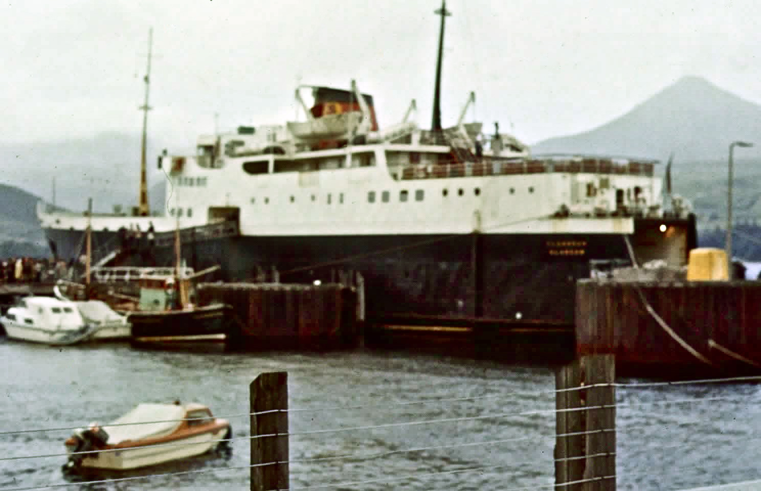 MV Clansman; view from astern